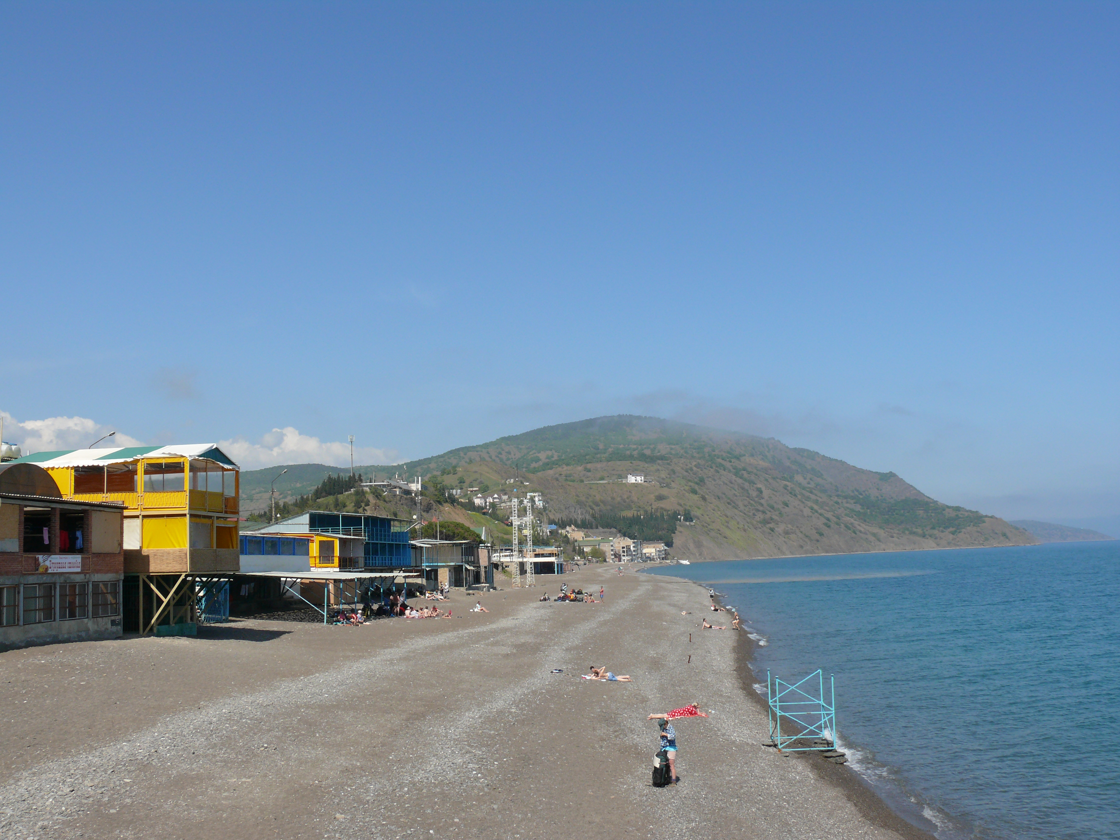 Rybachie village. Crimea, Ukraine